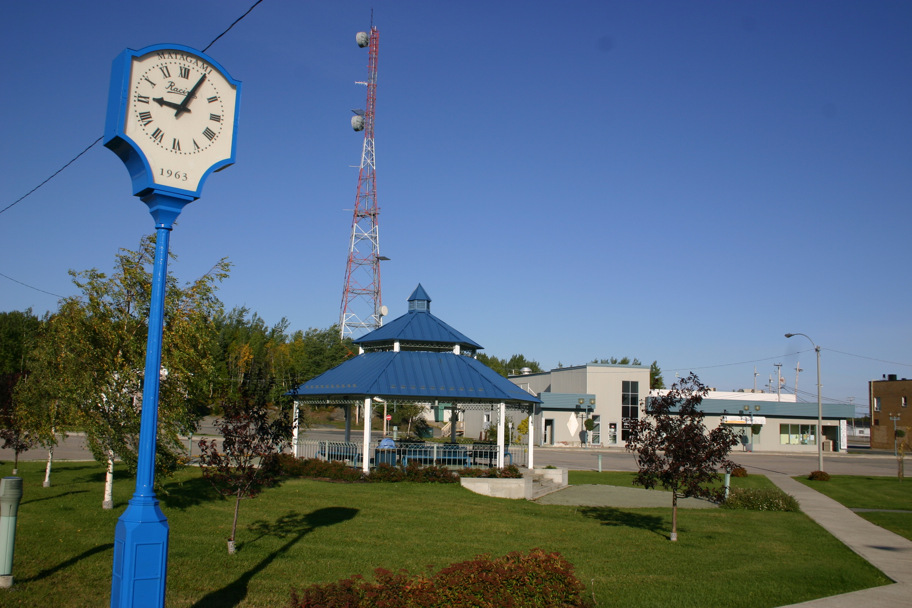 Photo of Matagami's town centre